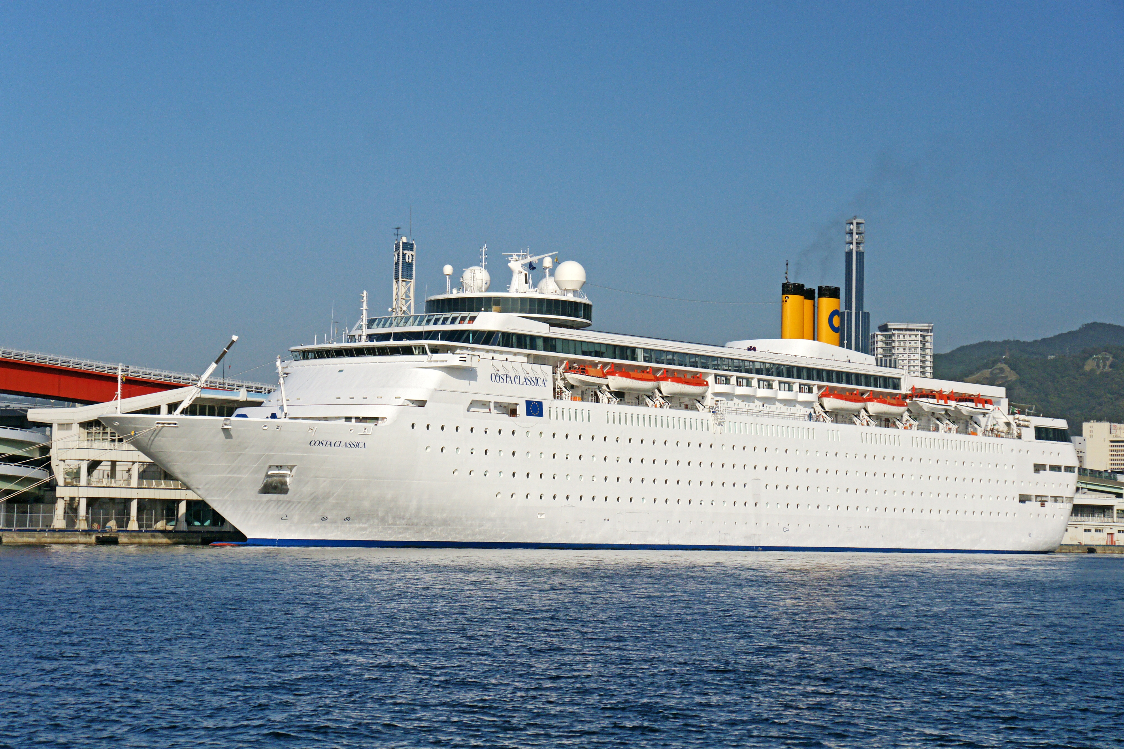 "Costa Classica" at "Kobe Port Terminal" of the Kobe harbor in Kobe, Hyogo prefecture, Japan.